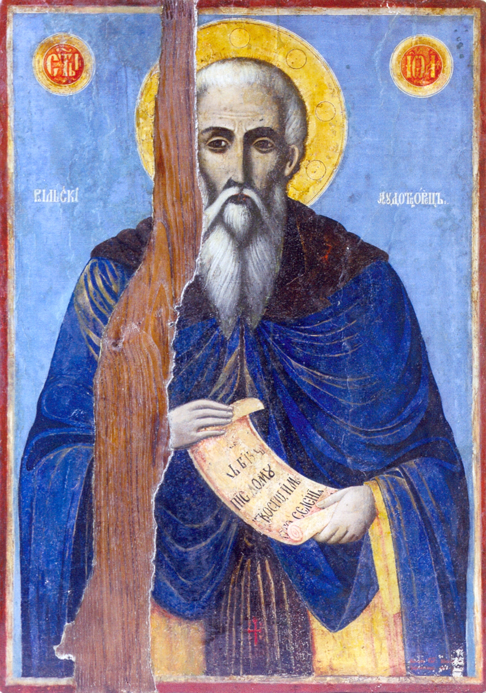 Icon of St. Ivan Rilski (St. John of Rila) in Belyova church, 74/52.5